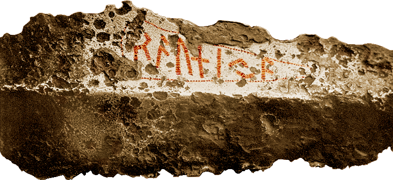 North Germanic runic inscription, Øvre Stabu spearhead. Colorized to enhance inscription.